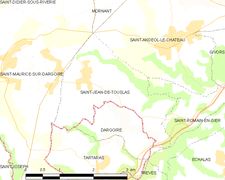 Map of French municipality